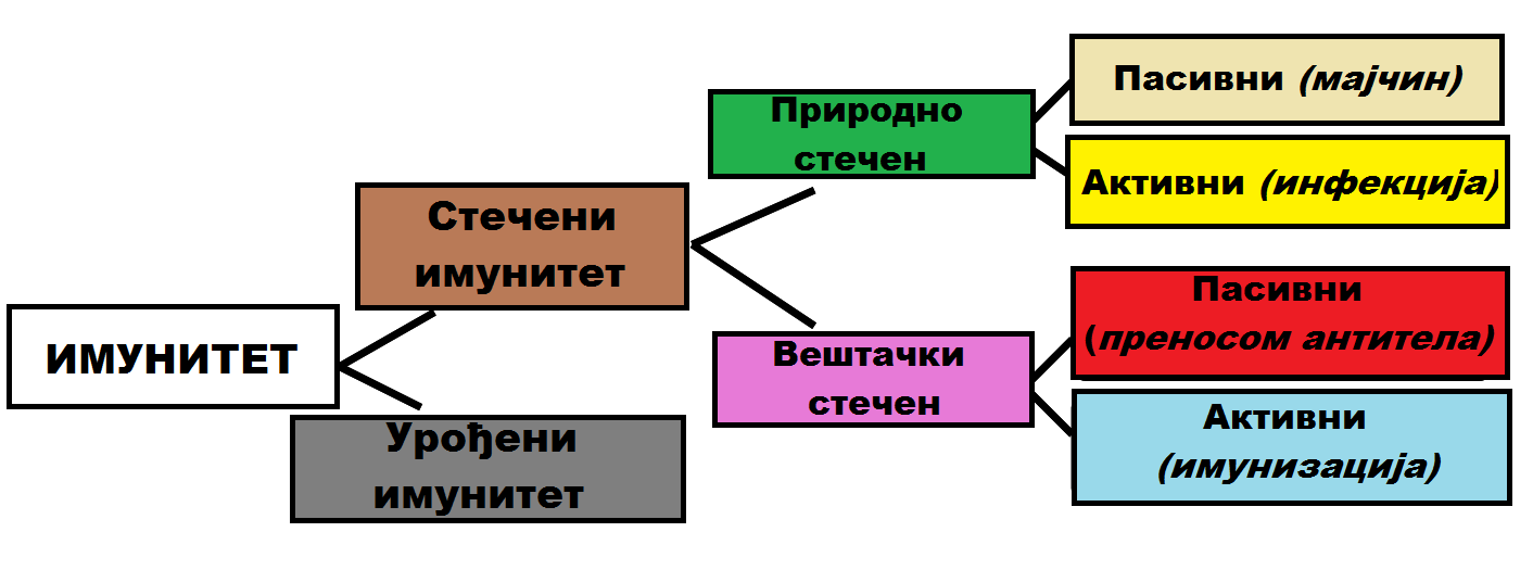 Flow chart diagram depicting the divisions of Immunity